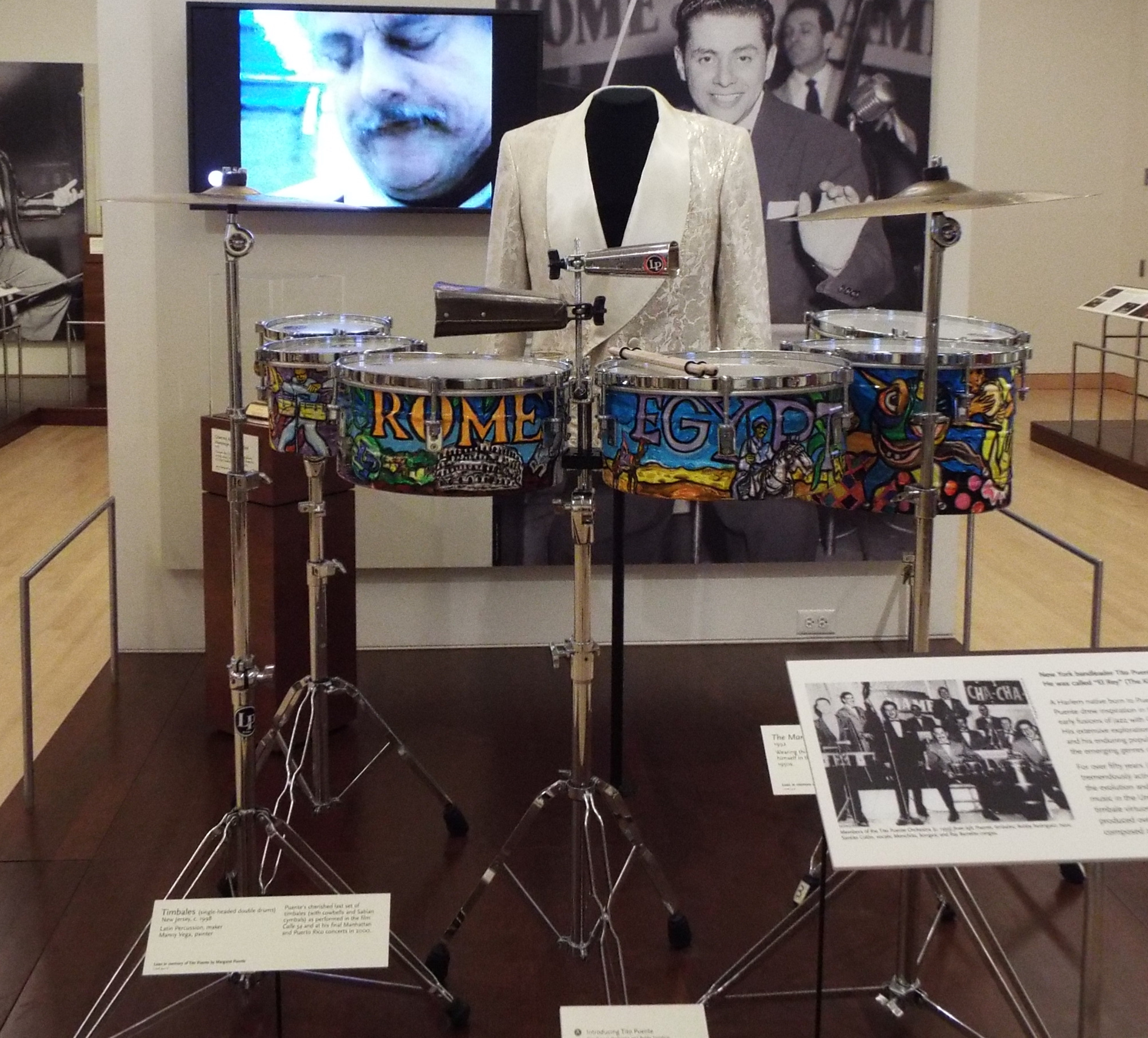 Close-up view of Tito Puente's Timbales on exhibit in the musical Instrument Museum in Phoenix, Az